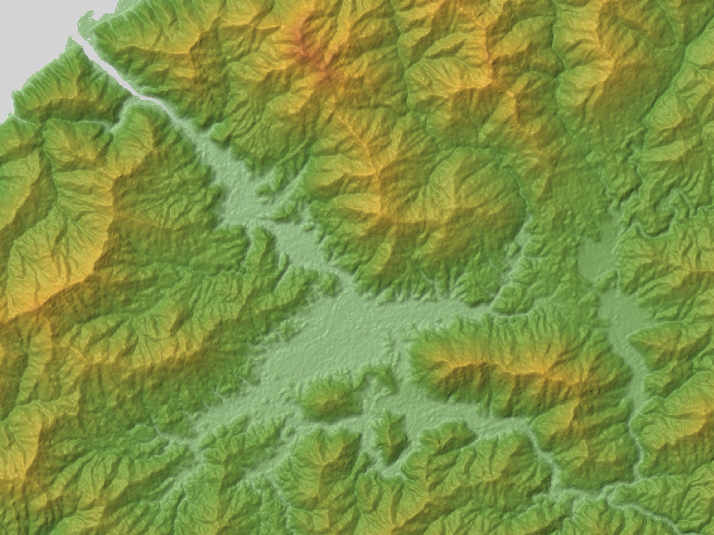 Ōzu Basin in Ōzu, Ehime Prefecture, Shikoku, Japan.